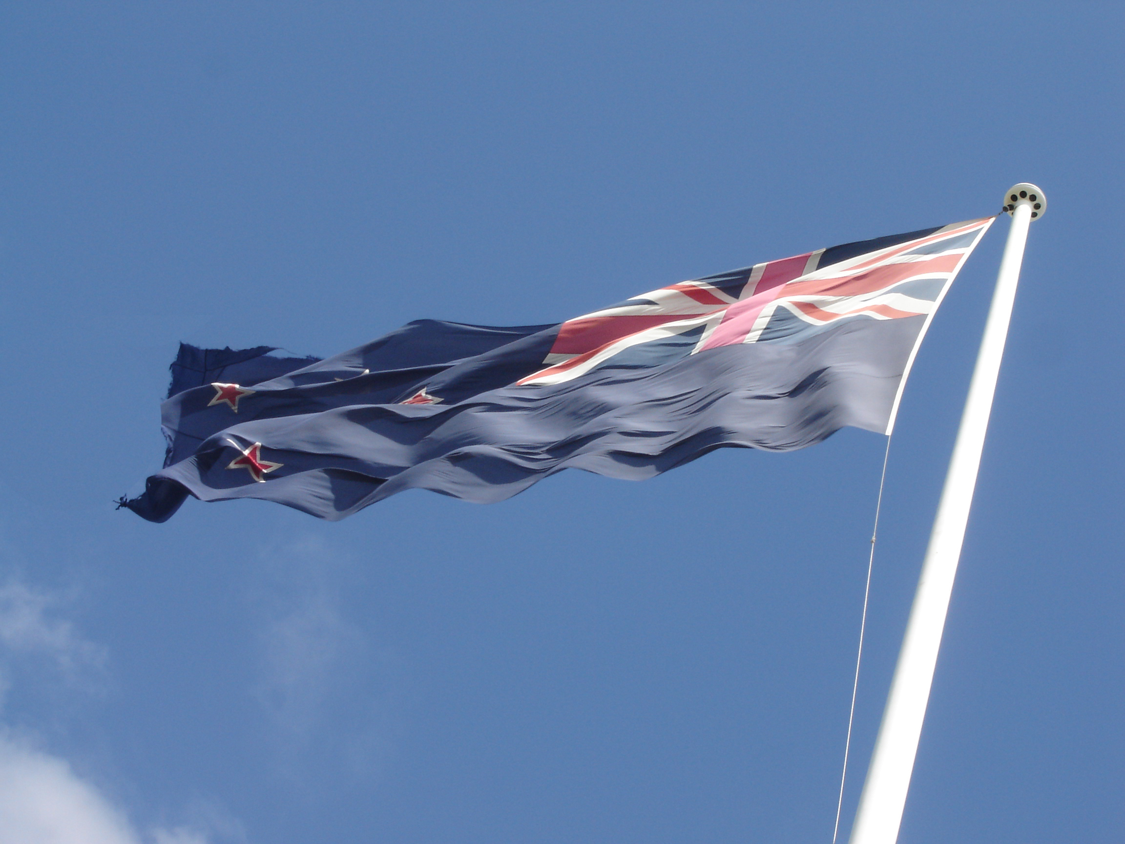 The large New Zealand flag flying over Auckland International Airport. An unsightly tear at fly edge of the flag has been removed with Photoshop.